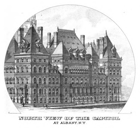 North View of the New York State Capitol in 1879